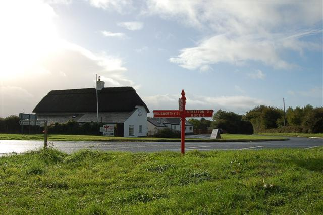 Red Post Crossroads Where the A3072 Stratton to Holsworthy road crosses the B3254 Kilkhampton to Launceston road.